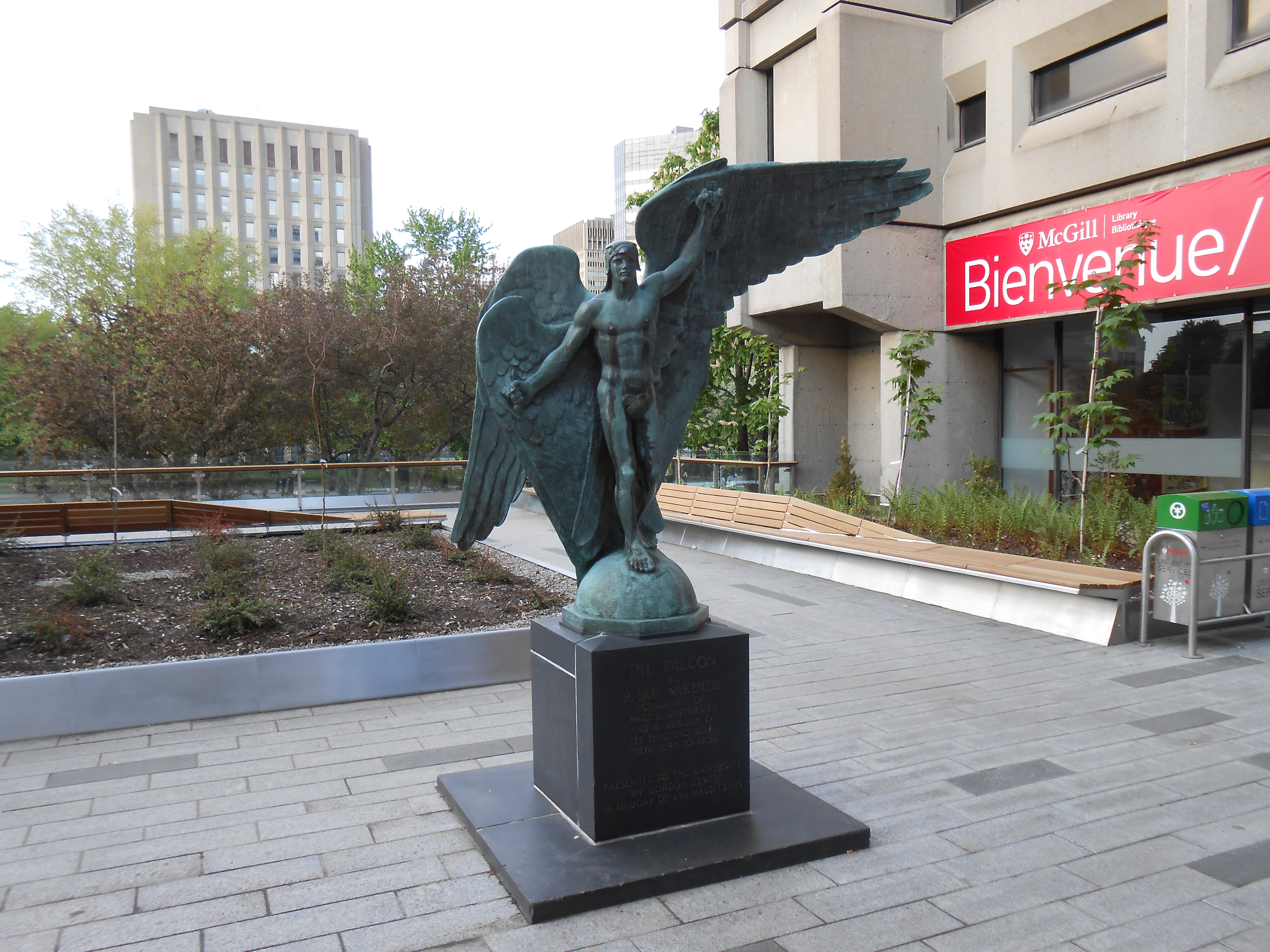 The Falcon (1951), by Robert Tait McKenzie, behind the Redpath McLennan Library Complex, McGill University, Montreal